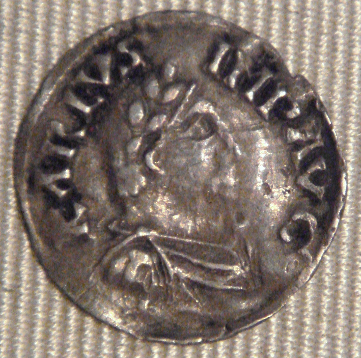 Charlemagne_denier_812_814.